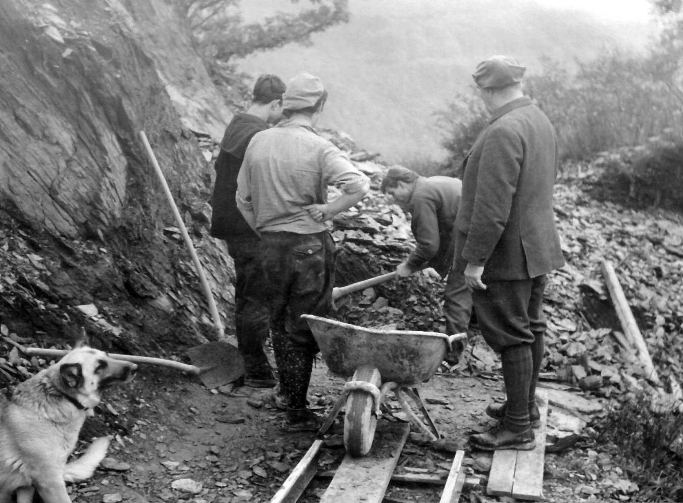 External works, Waldeck castle 1966